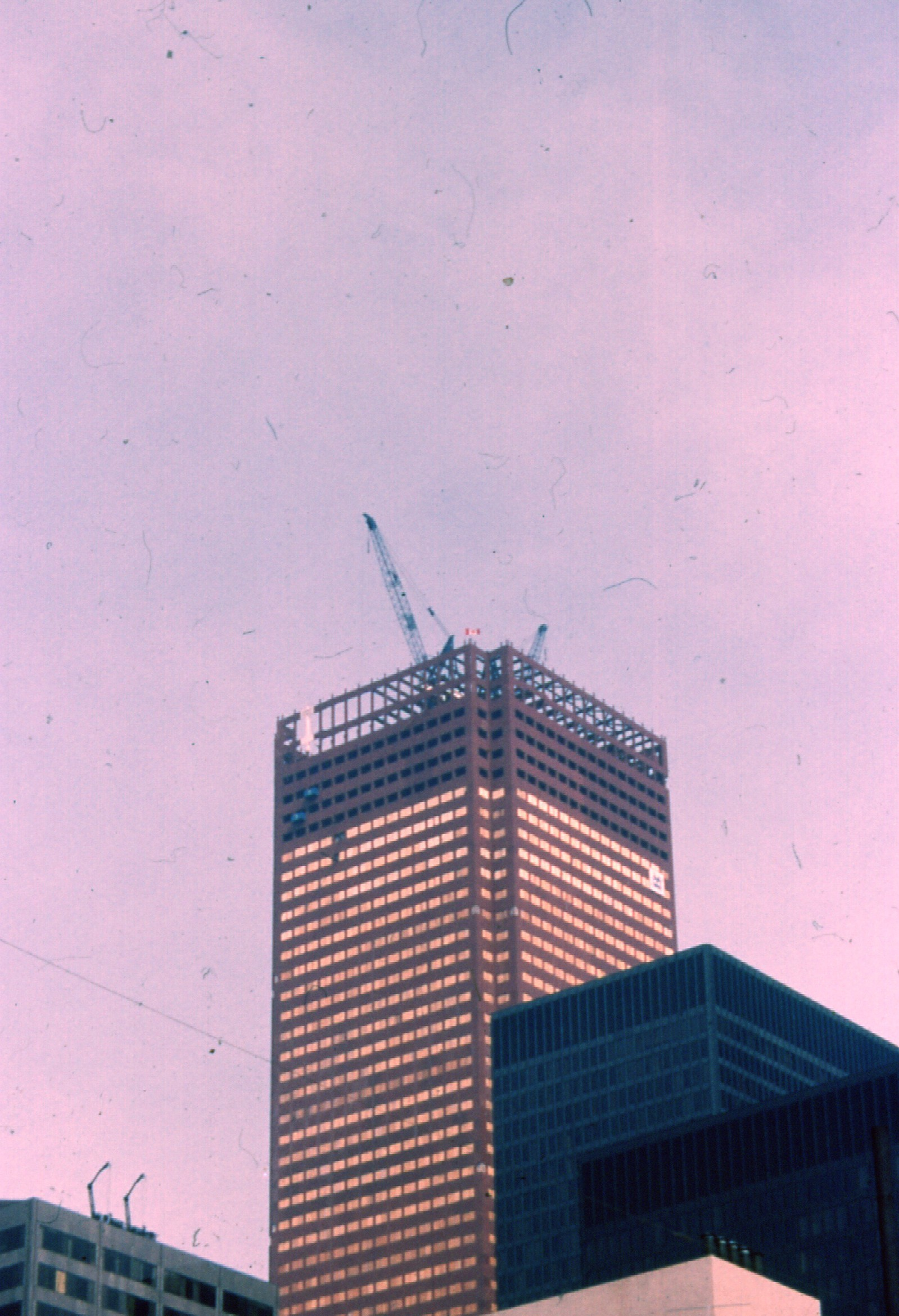 The Bank of Montreal's First Canadian Place, a 72-storey office tower under construction